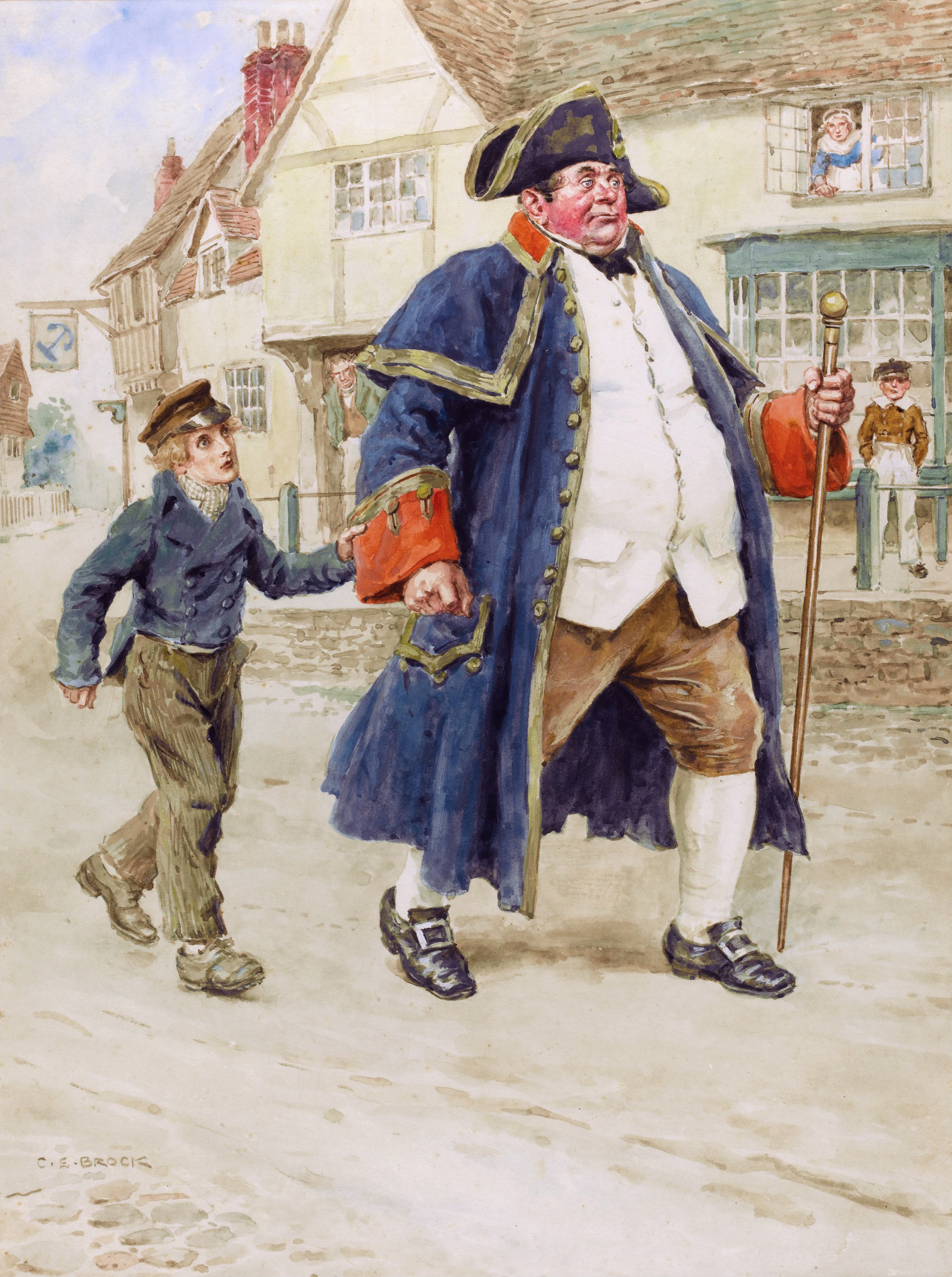 Oliver Twist. "Mr Bumble walked on with long strides... Little Oliver firmly grasping his gold laced cuff trotted beside him." watercolour drawing 29 x 21.7 cm signed b.l.: C.E. Brock